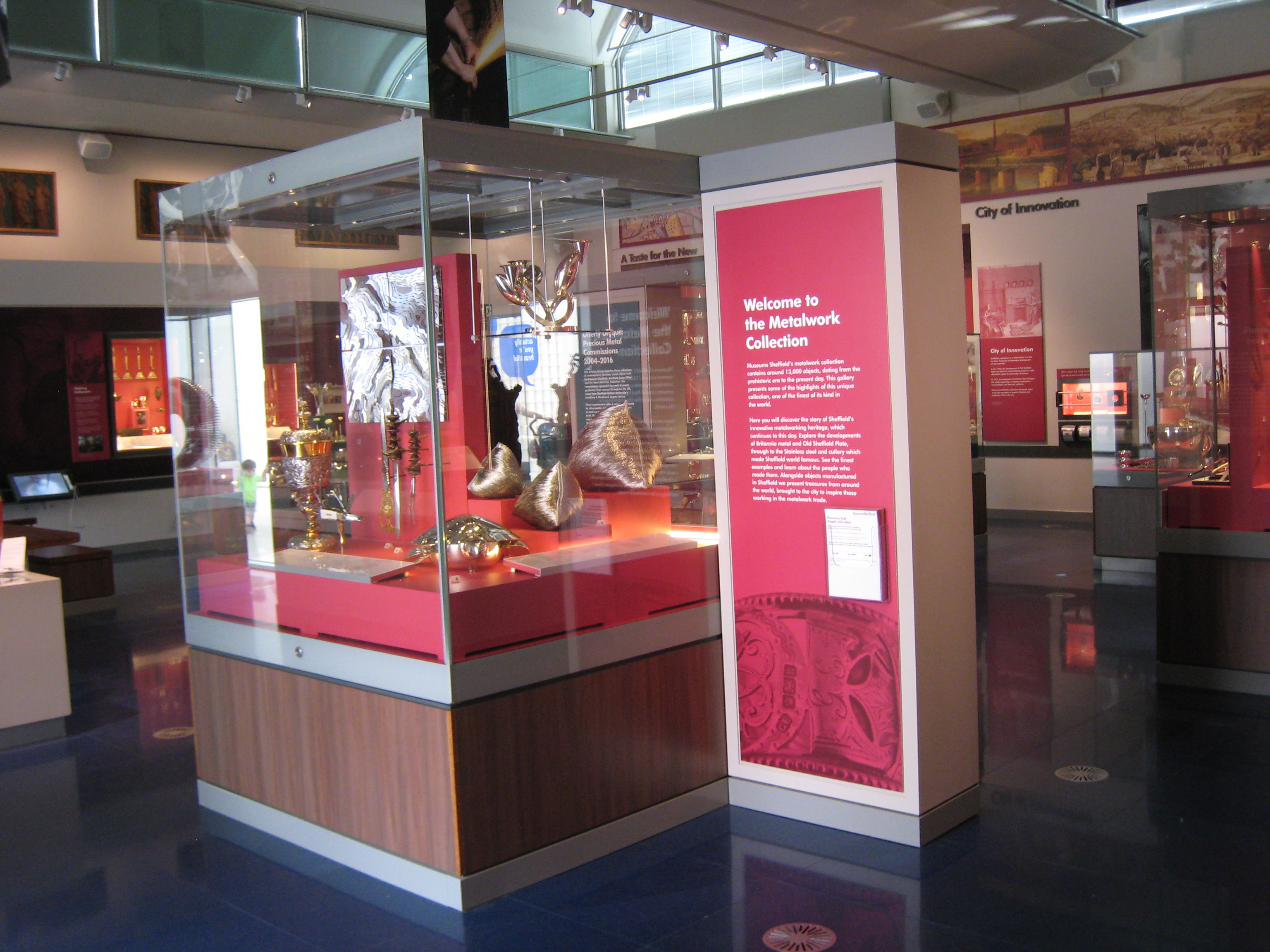 The Metalwork room (museum display) at the Millennium Gallery, Sheffield